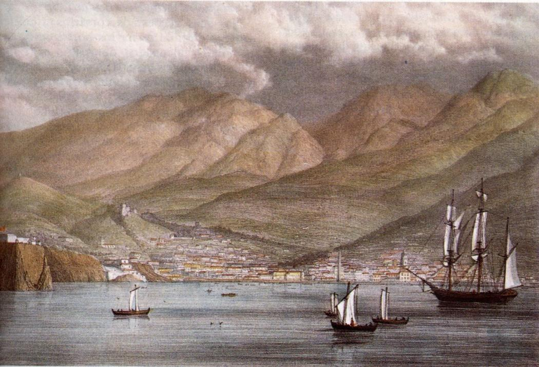 Westall, Nicholson, Harding e Nash, pub. in Views in the Madeiras, Londres, 1827. Funchal, ilha da Madeira.